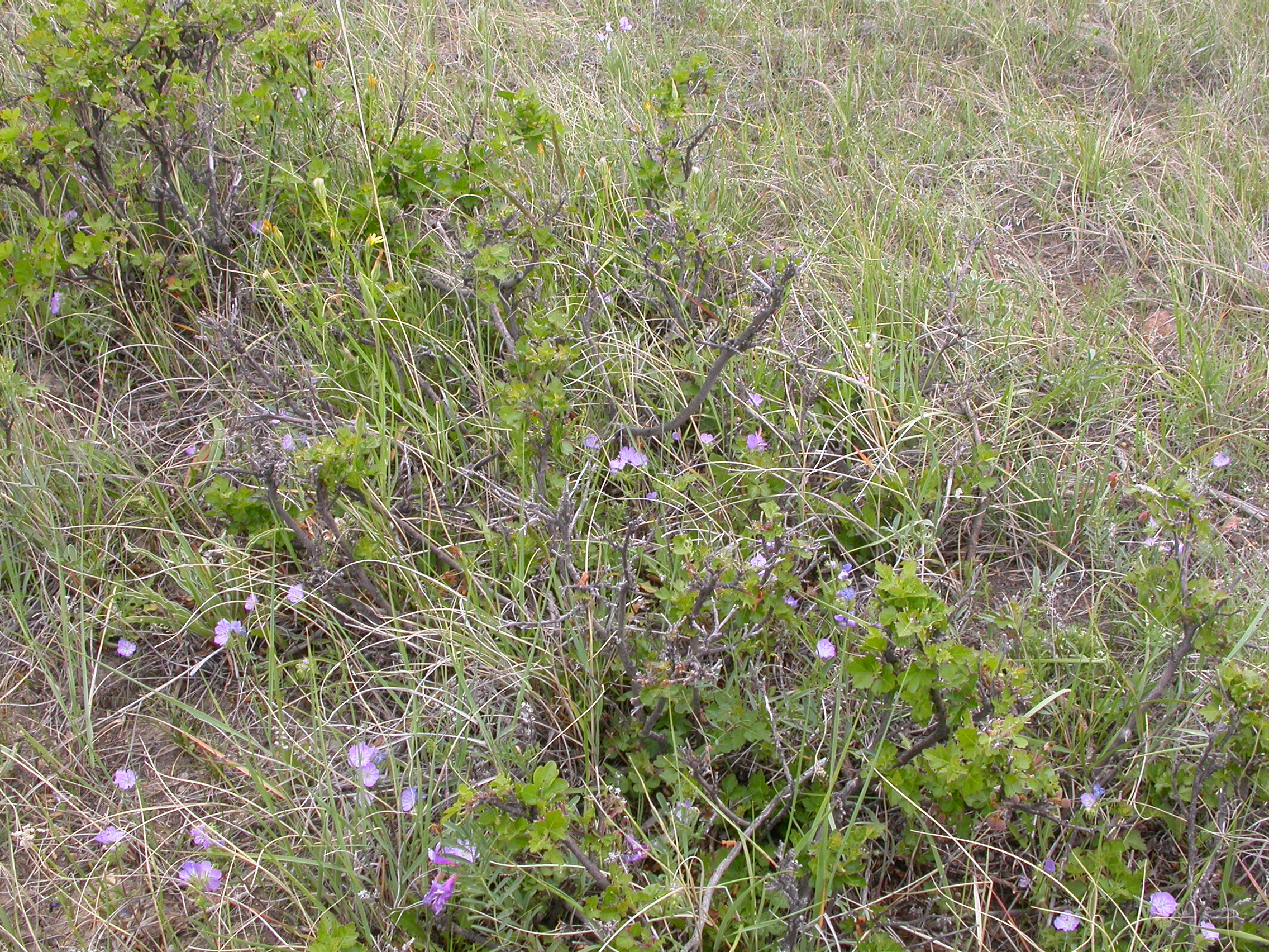 This annual is locally common and seems to prefer sites in and among shrubs such as Rhus aromatica (R. trilobata).